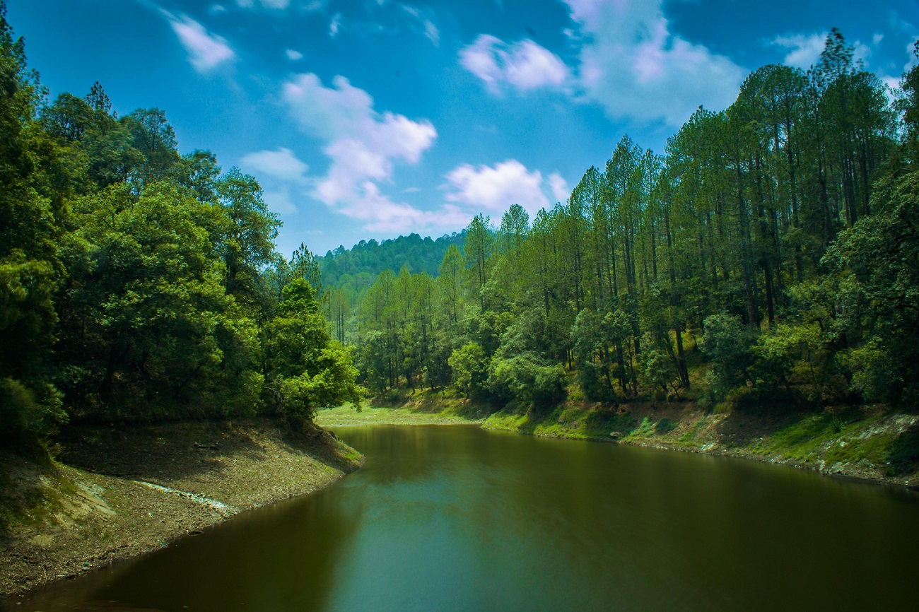 Bhalu Dam is a colonial reminiscent situated among thick pine, Himalayan oak and Cedar forests near Ranikhet